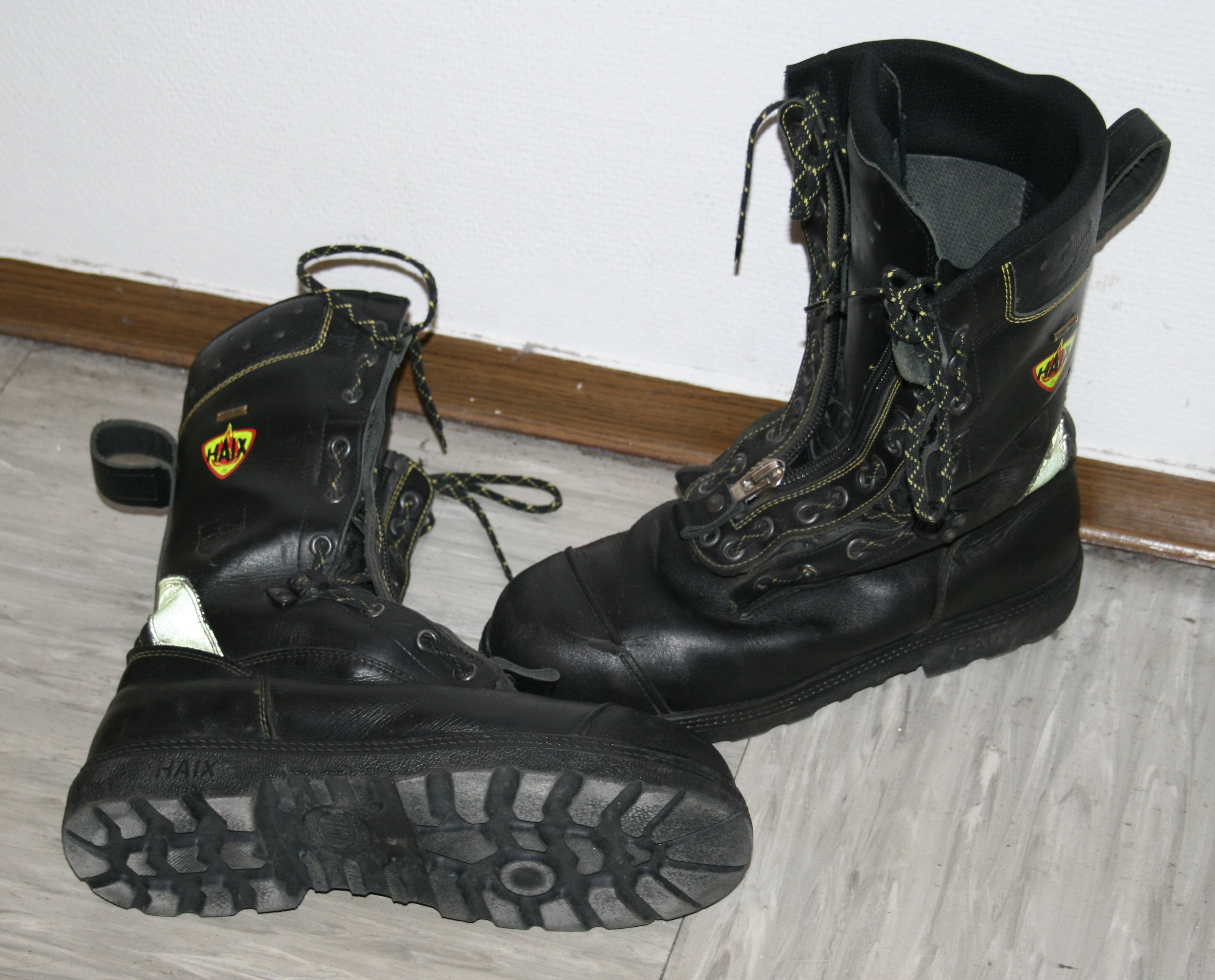 Haix S3 HRO HI CI FPA safety boots Fire Flash Gamma for firefighters featuring a laced in quickzip boot closure. This safety footwear complies to the European EN ISO 20345:2004 standards.